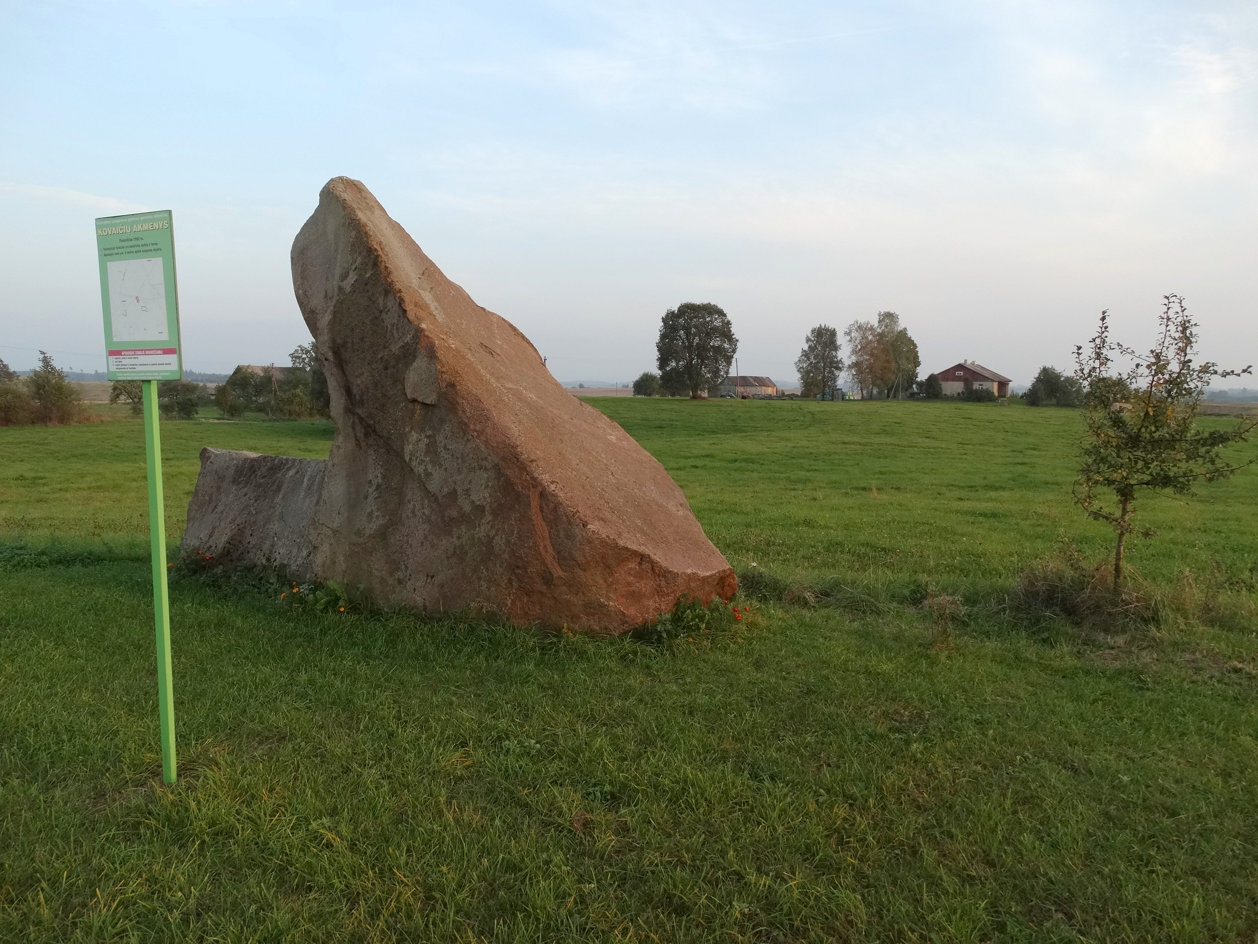 Stones in Kovaičiai, Kaišiadorys District, Lithuania